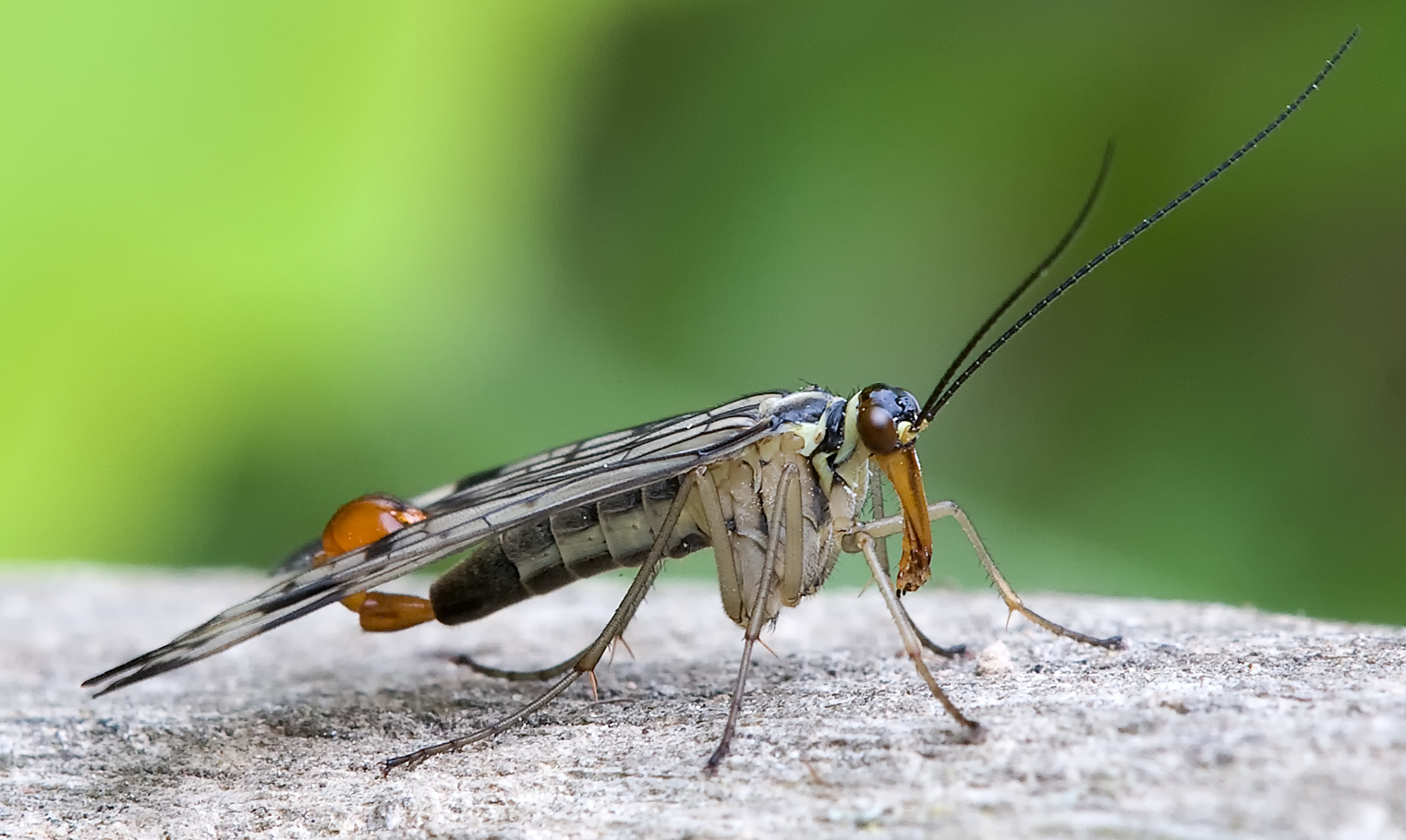 Scorpion Fly (Panorpa communis) Panorpa is a genus of scorpionflies that is widely dispersed in the Northern hemisphere.